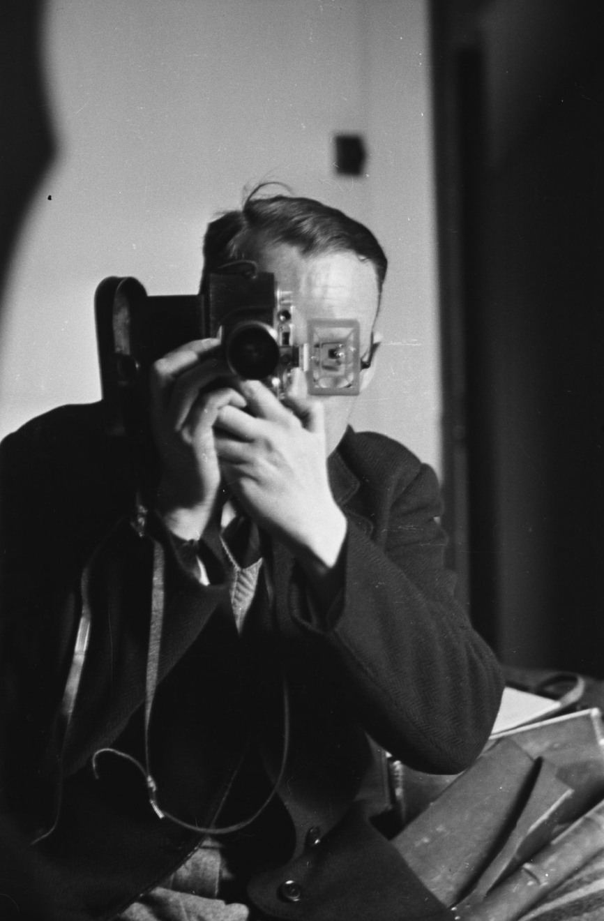 A rare self portrait of the prolific Welsh photo journalist Geoff Charles. Discovered with a set of images he took of end of WWII celebrations and unveiling of a memorial at Llanbrynmair, Powys